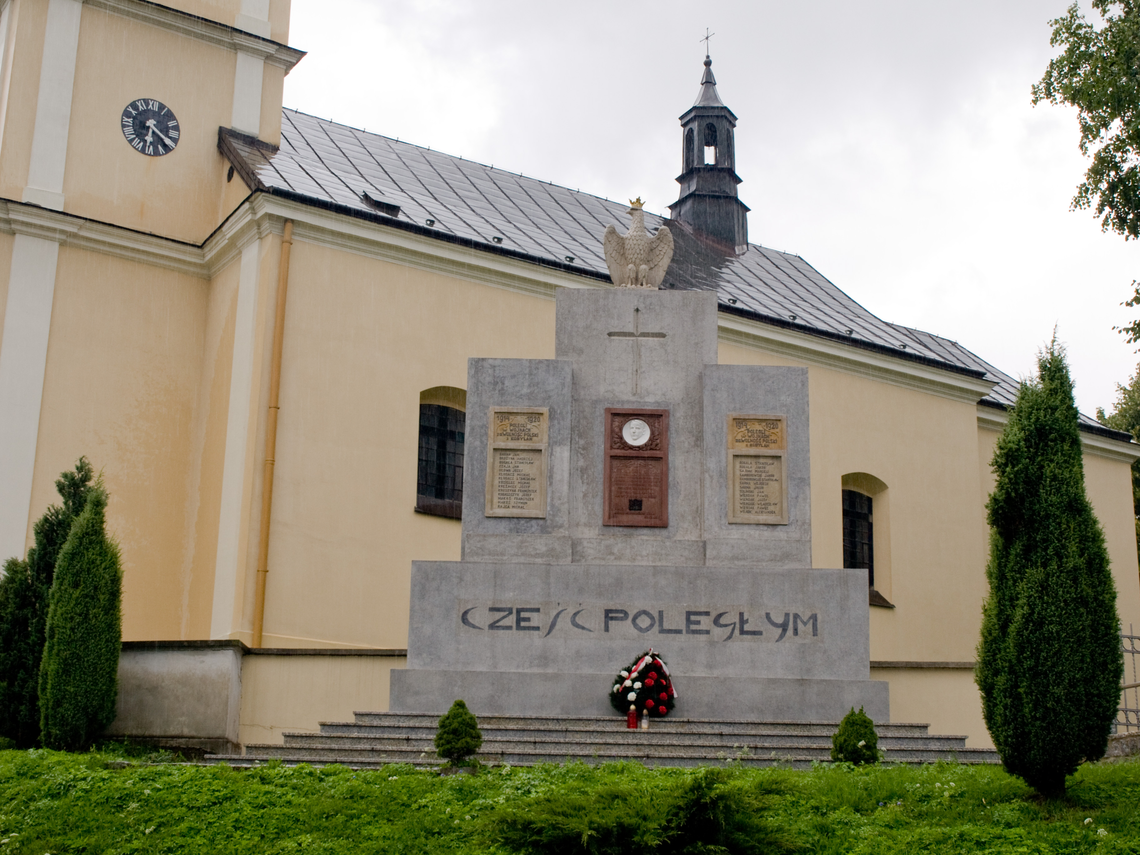 Church, Kobylany, Subcarpathian Voivodeship